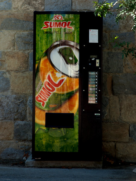 Vending machine for Sumol cans